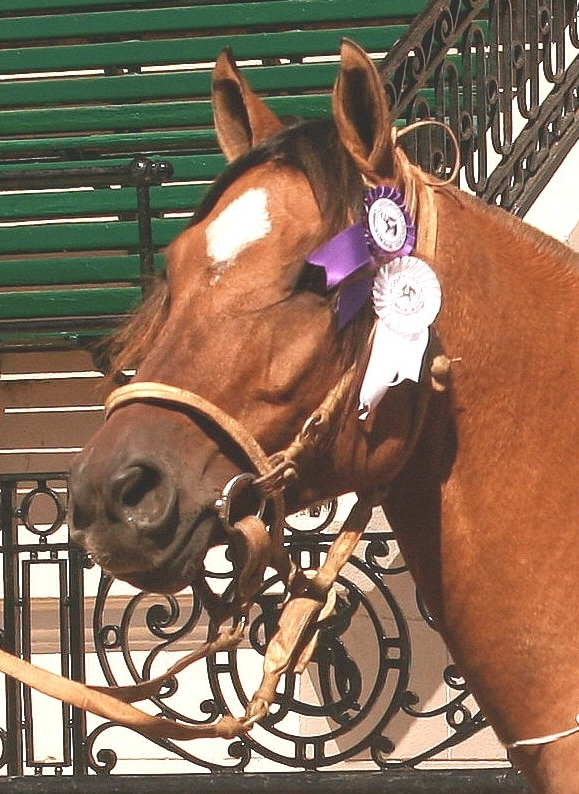 Closeup of an Argentine horse criollo mare presented at show in a traditional halter and bridle. Both are cuero crudo (lightly tanned leather) with button-and-hole fittings. The halter is a fiador (snug neck collar) with noseband and lead. The bridle is a headstall and snaffle bit, with a chin strap and lead instead of reins.